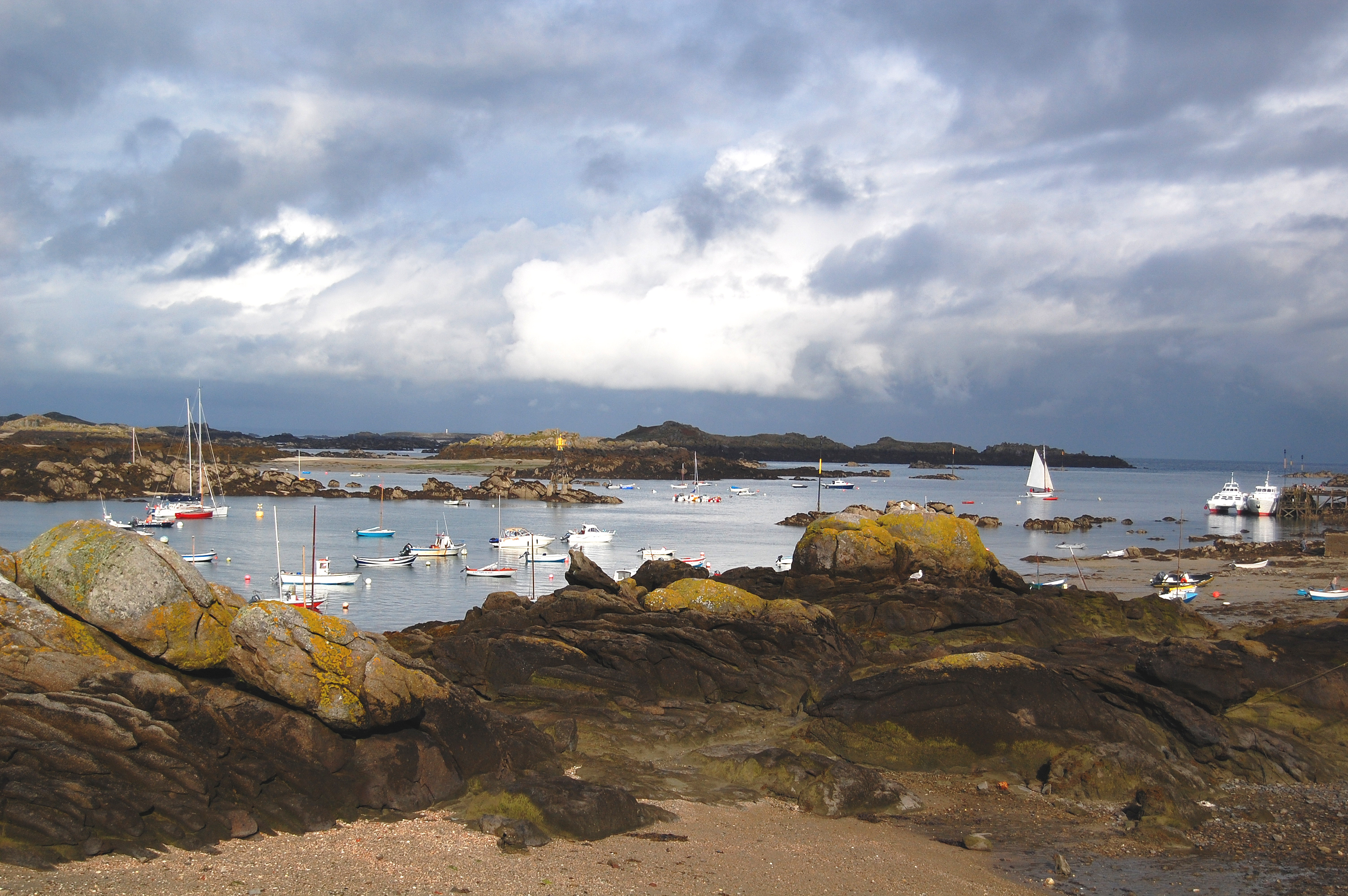 The south of the sound of Chausey Island, France